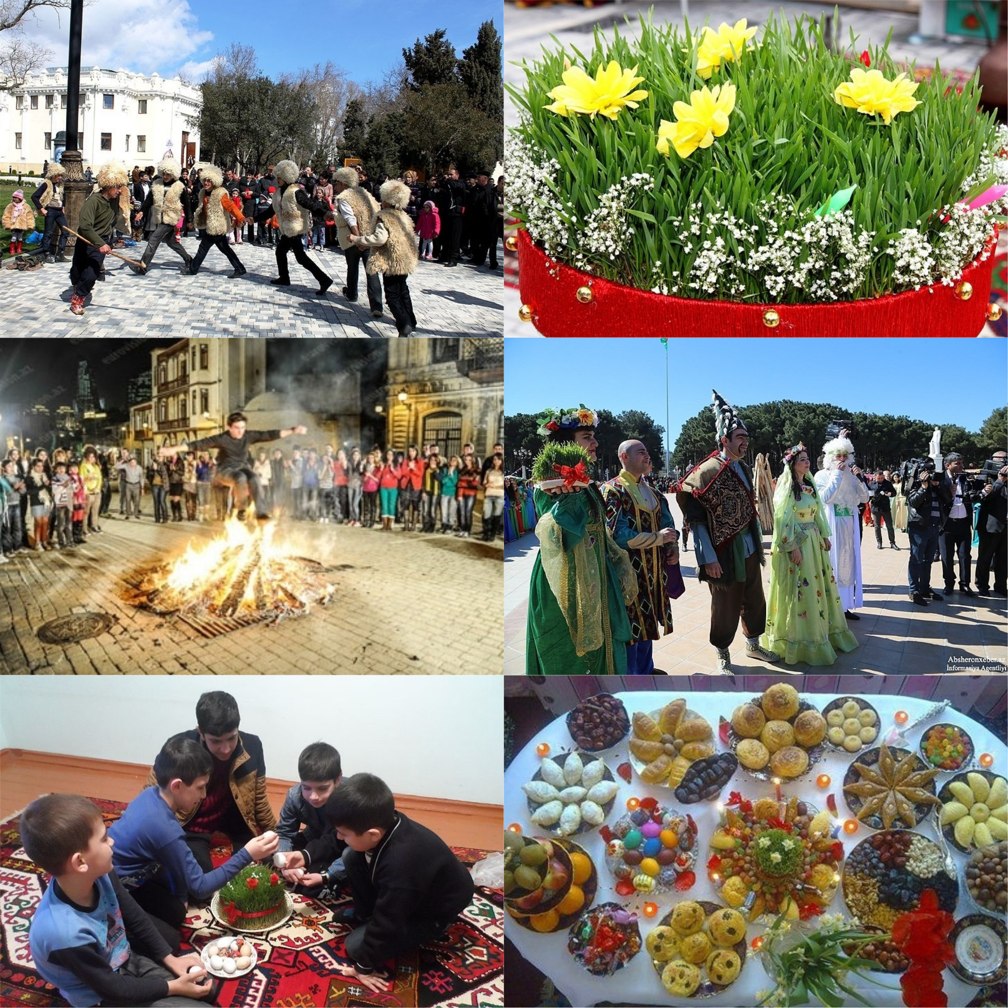 Azerbaijan Nowruz collage